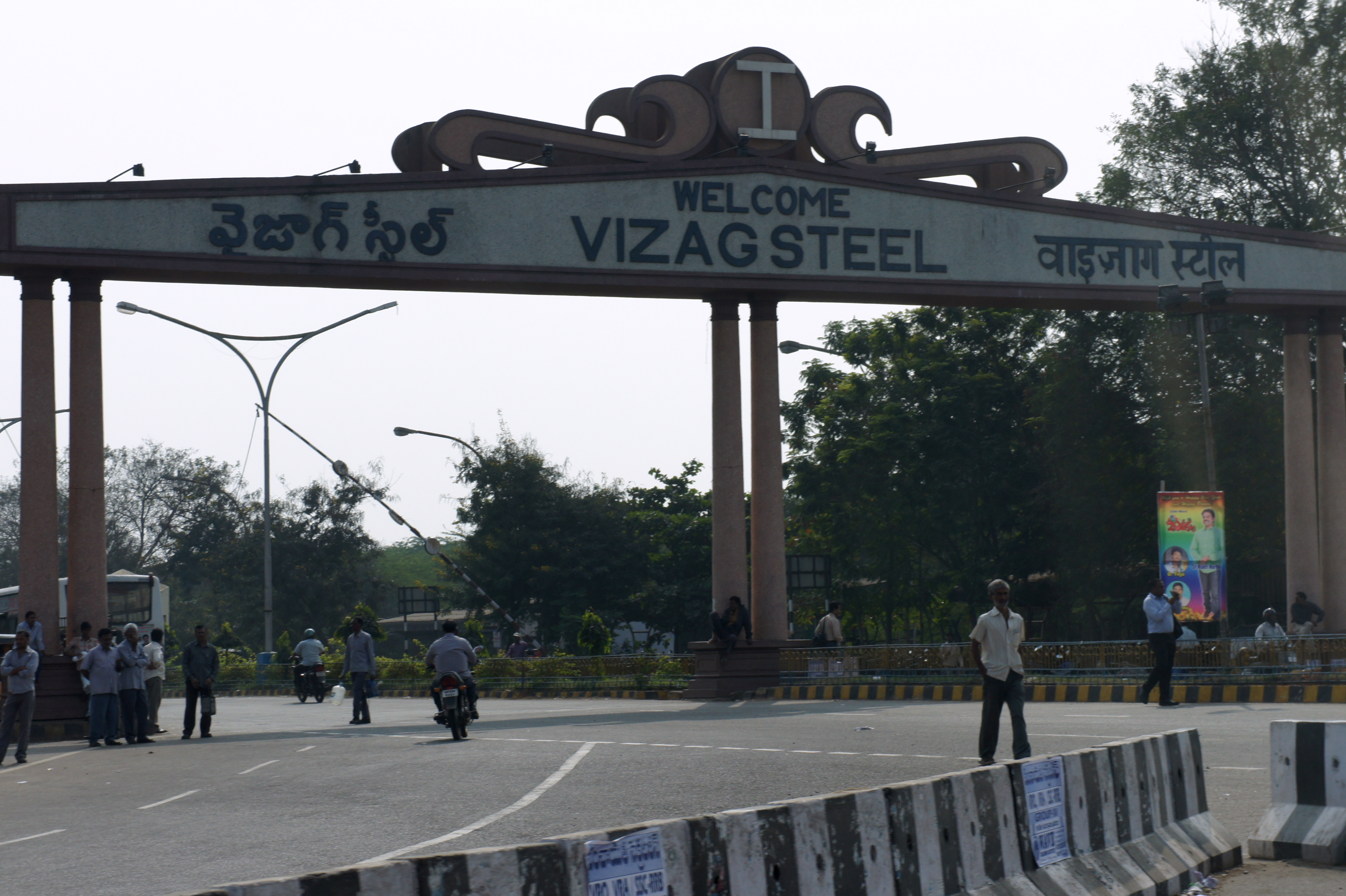 A view of the Visakhapatnam Steel Plant